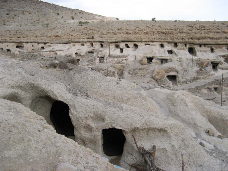 Maymand village, Shahr-e-Babak County, Kerman, Iran